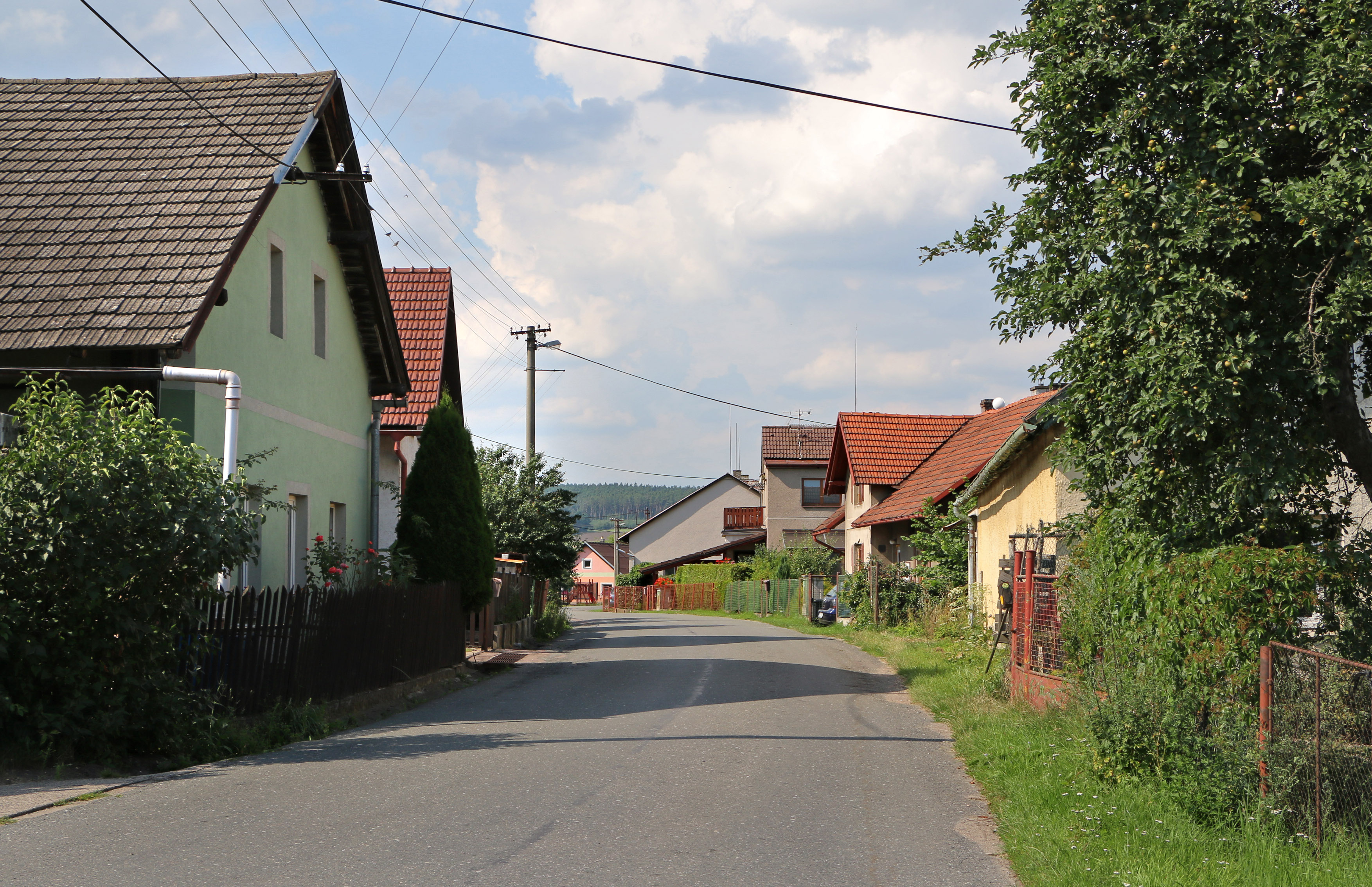 South part of Olešnice, Czech Republic.